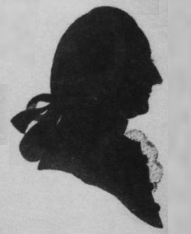 Francis Rose Drewe (1738-1801) of The Grange, Broadhembury, Devon. Silhouette c. 1777 painted on laid card 3¼ x 2¼in./83 x 58mm. Frame: oval, stained black wood. Attributed to Francis Torond by owner, private collection of "the author" (Nick Tyson?) of website .uk